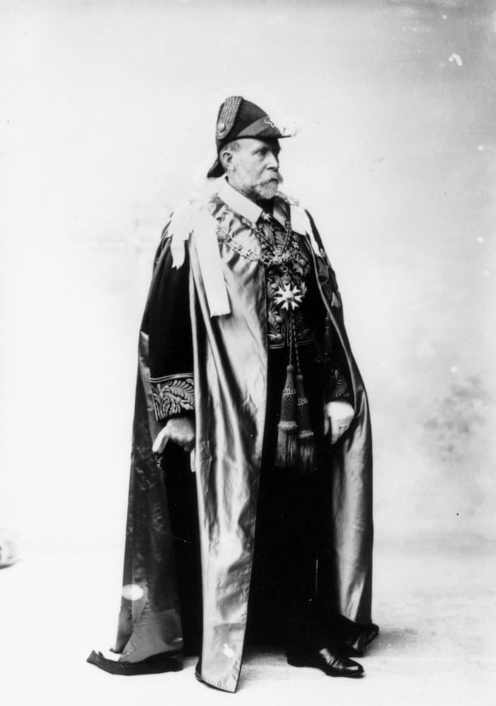 Sir William MacGregor in ceremonial gown as Governor of Queensland Queensland Governor 2 December 1909 - 16 July 1914.